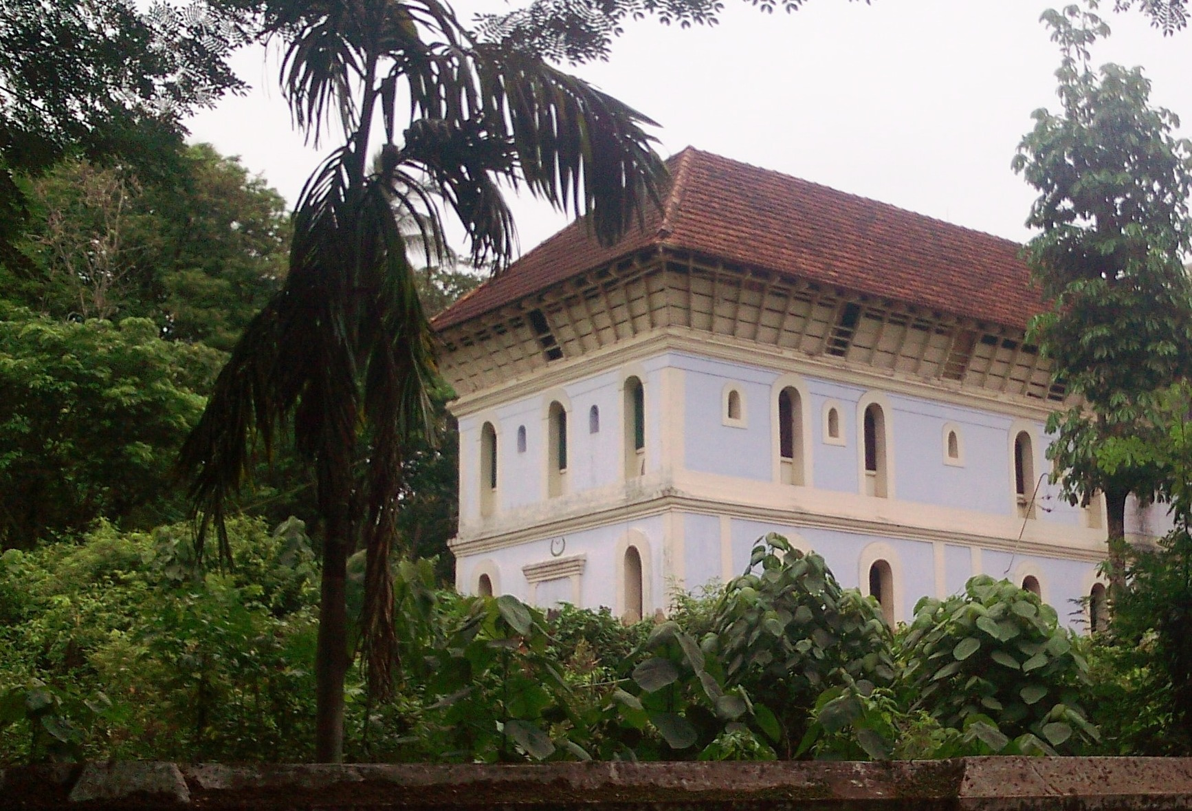 Old Mosque, having historic importance